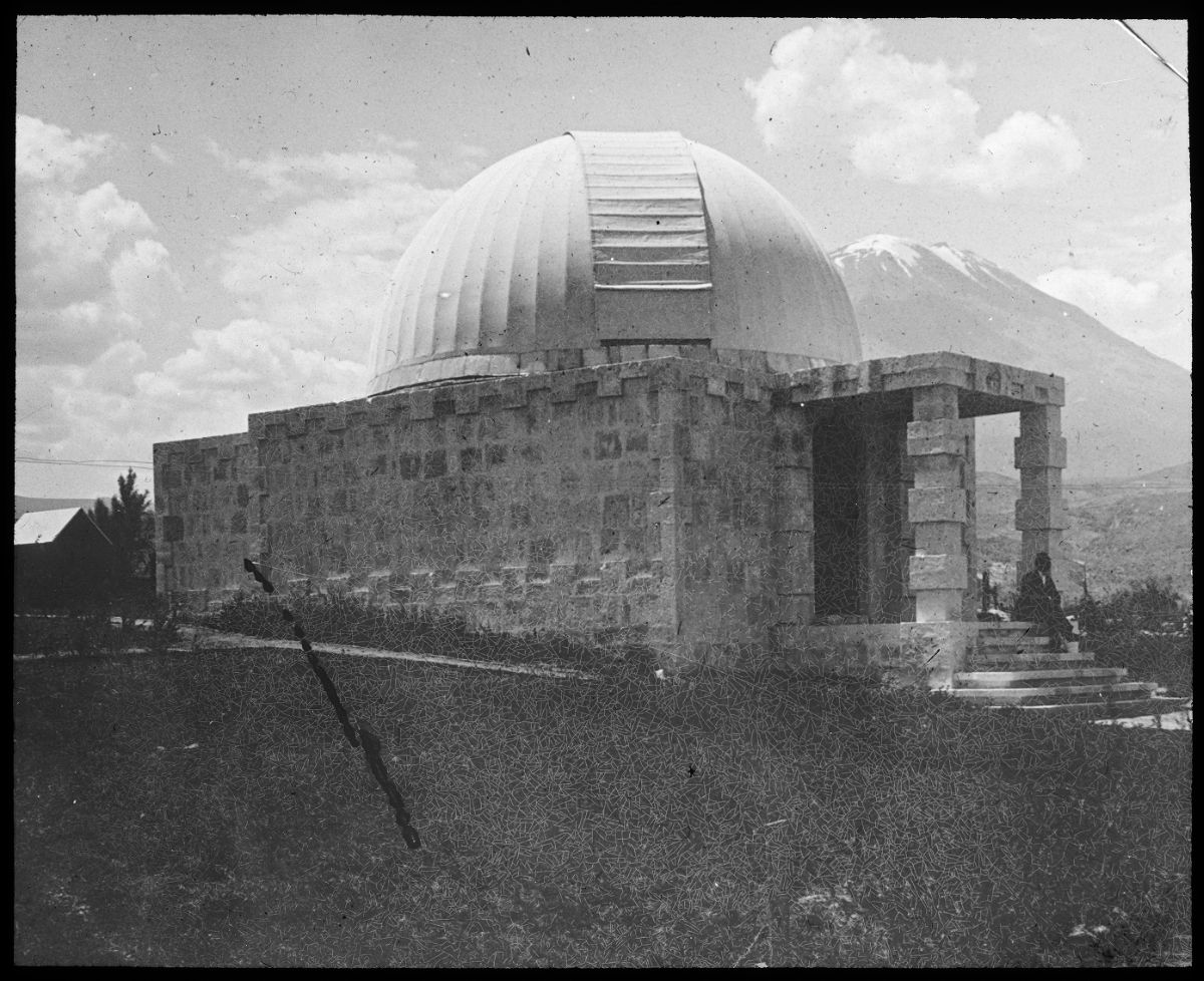 24" Bruce dome, HCO Arequipa, Peru